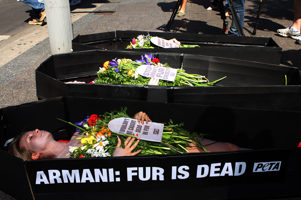 PETA 'Fur Is Dead' coffin stunt aimed at Armani, Bondi Junction, Sydney.